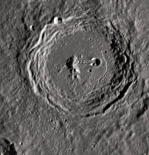 Arzachel lunar crater as seen from Earth with satellite craters labeled